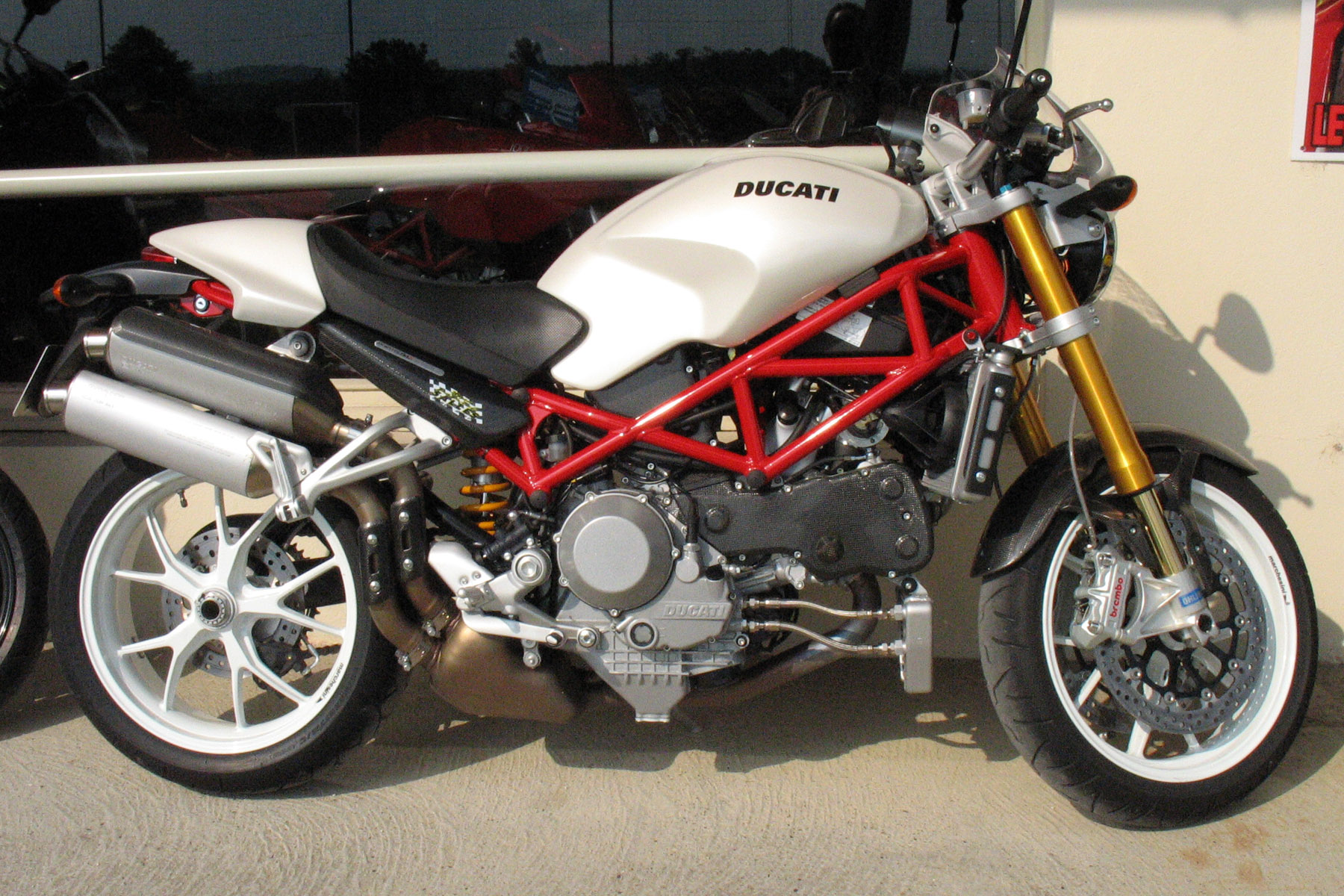 Moto Ducati Monster S4RS